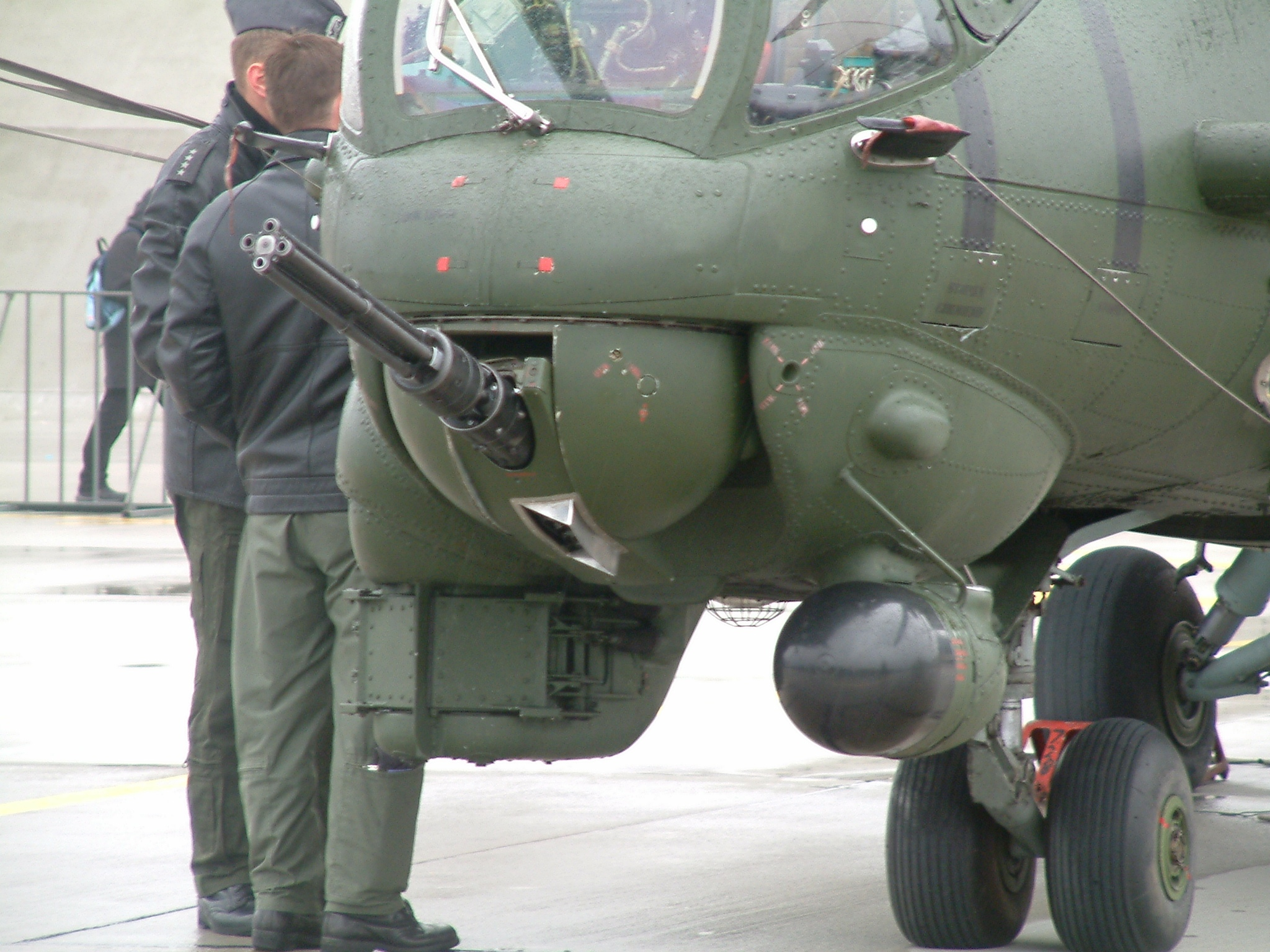 Mi-24W #728 of Polish Land Forces Aviation, 31st. Air Base Poznań-Krzesiny